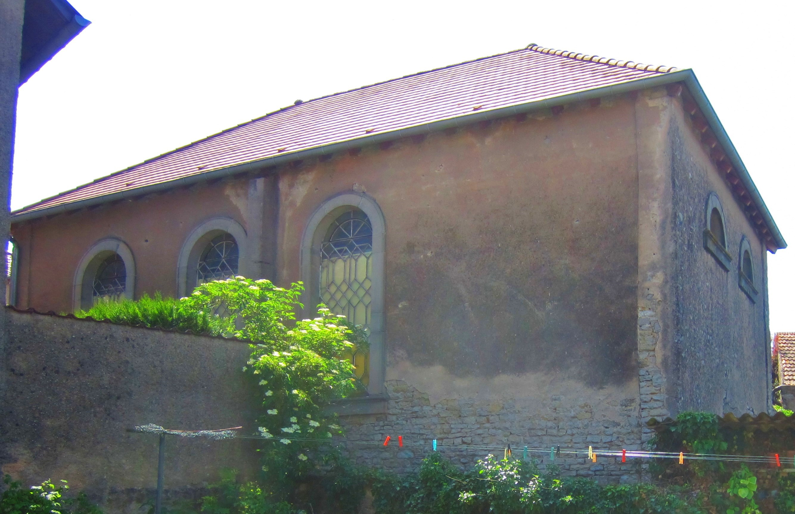 Synagogue Imling (1)